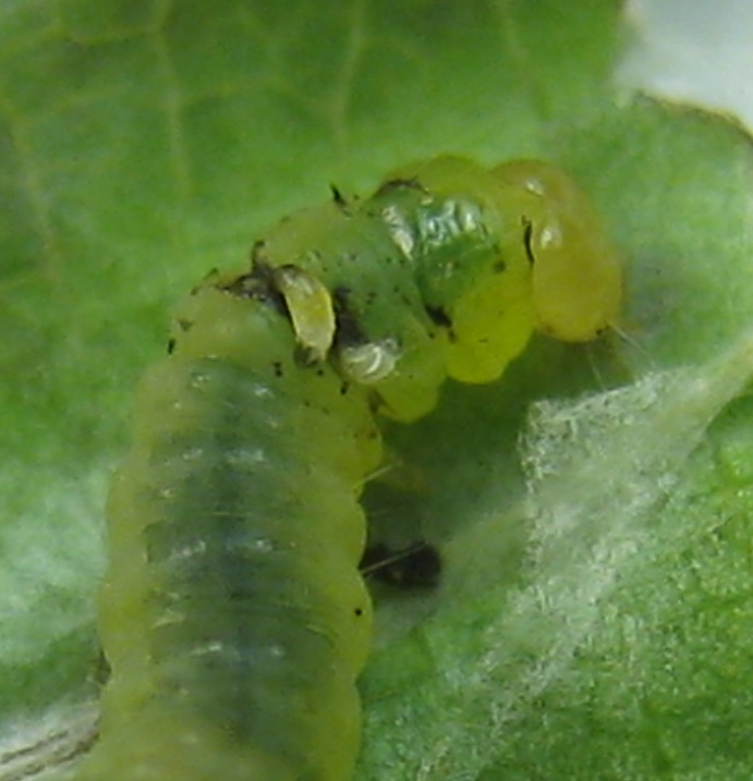 Ichneumon wasp, Phytodietus, larva on Acleris schalleriana caterpillar (caterpillar size: 9-11 mm). Pennypack Restoration Trust, Montgomery County, Pennsylvania, USA.